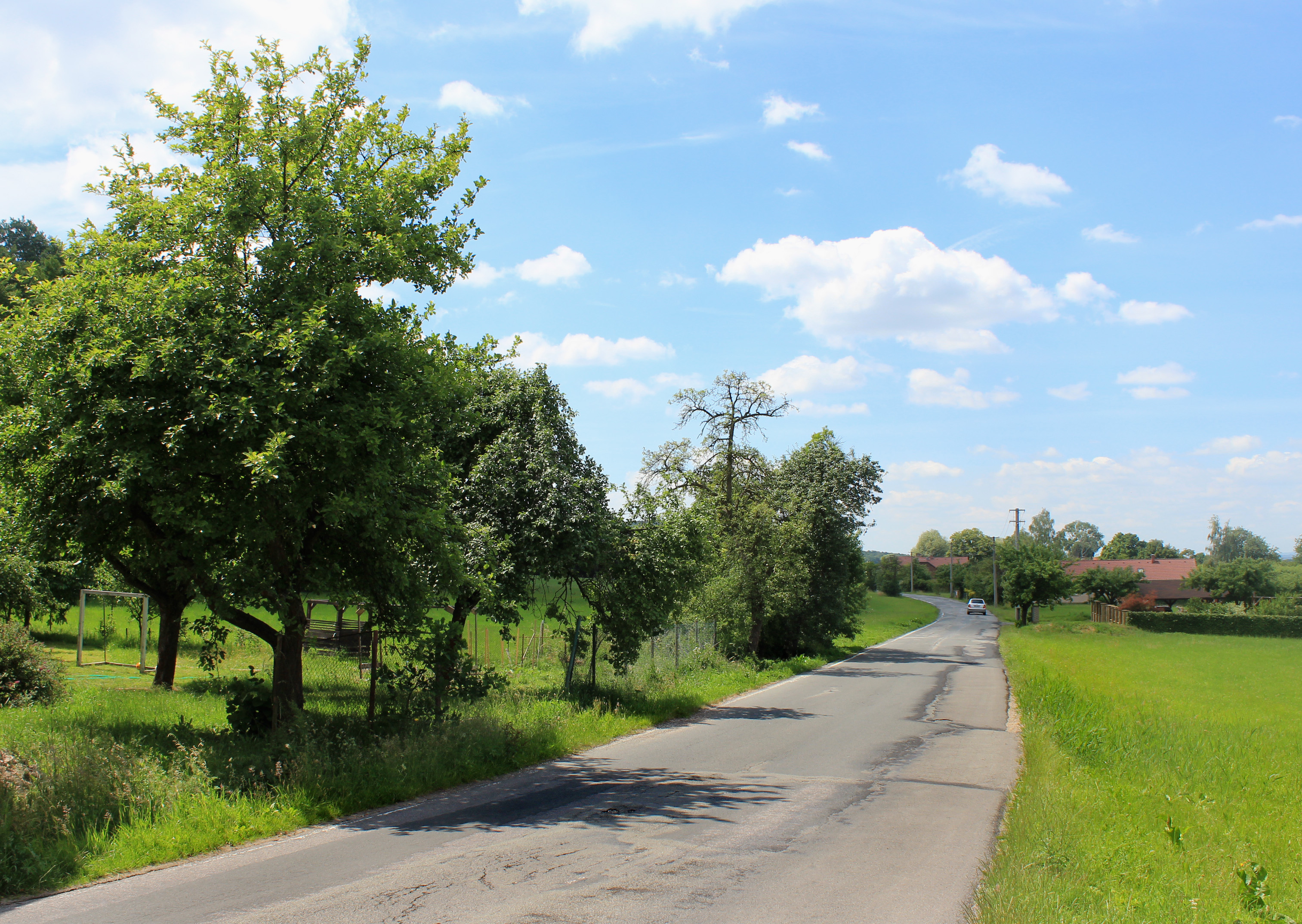 Middle part of Čížovky, part of Petkovy, Czech Republic.